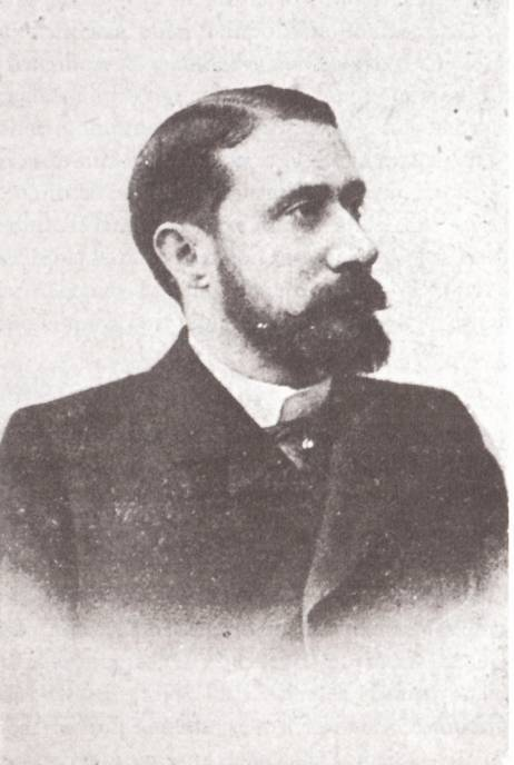 Portrait of Paco Seco de Lucena (1867-1904) Image Source: Museo Casa de los Tiros de Granada. Author of the photo: José García Ayola (1836-1900). City: Granada (Spain)